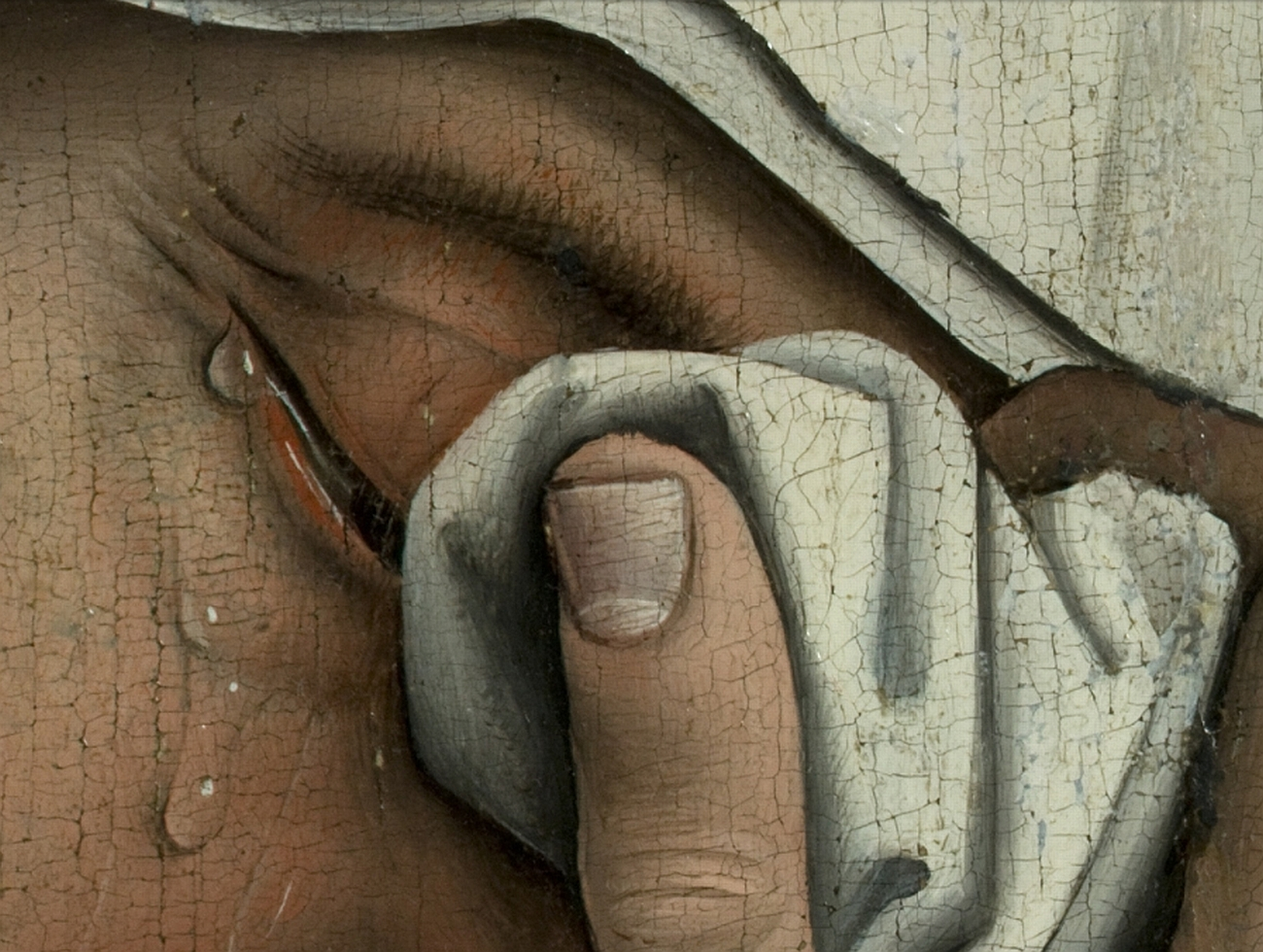 Stabat mater (Mary); left, tears